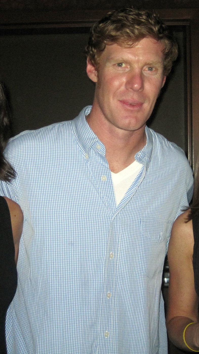 Alexi Lalas, football player.